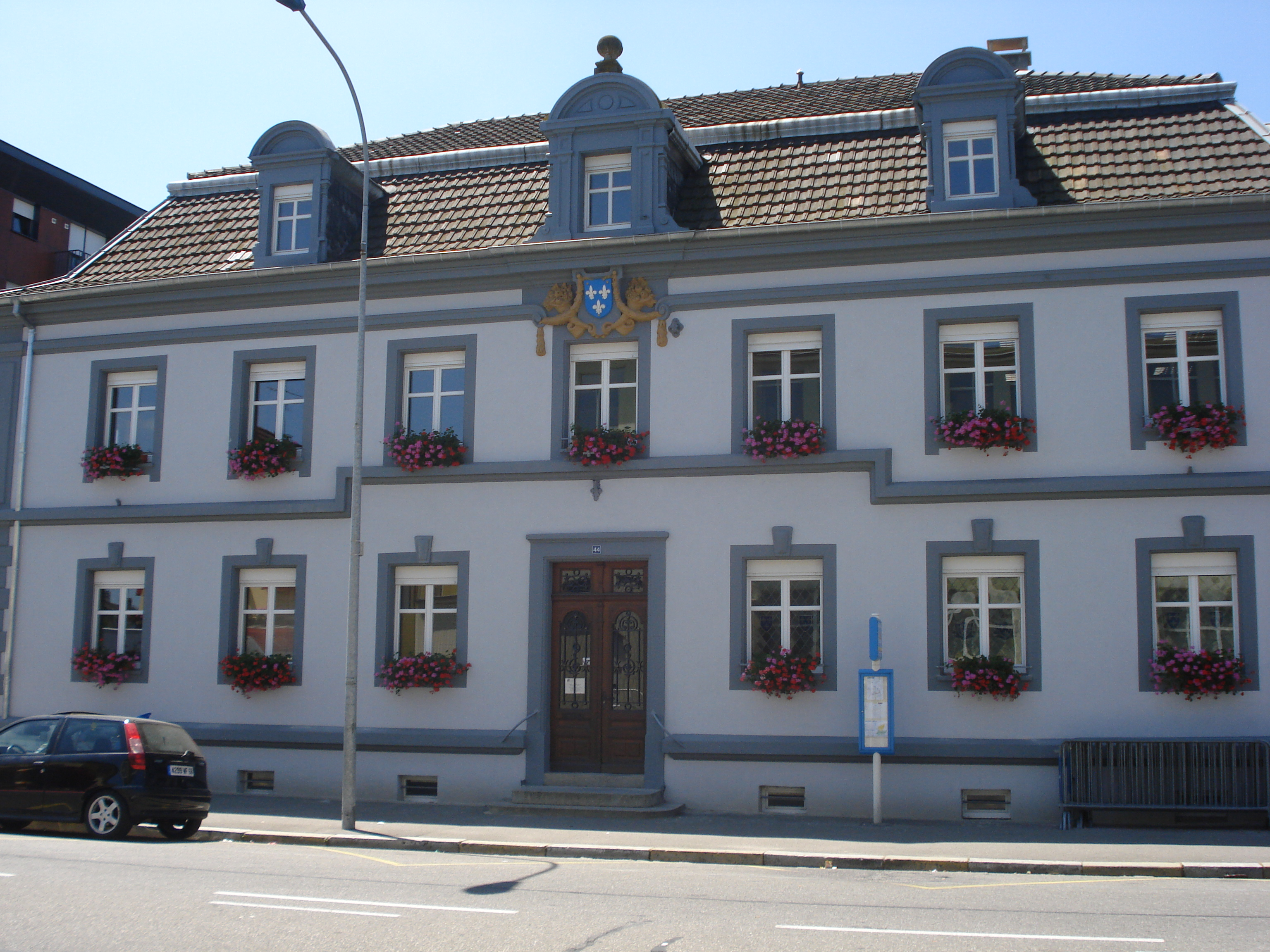 Photo of the former mayor of St. Louis in Haut-Rhin.